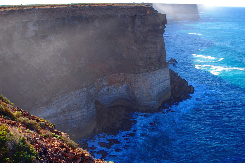 Nullarbor National Park, Great Australian Bight Marine Park, Australia